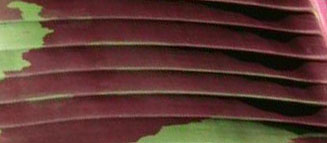 close-up of File:Musa sumatrana (Red Banana Tree).jpg